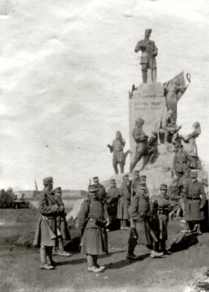 Austro-Hungarian soldiers by the statue of Karađorđe in occupied Belgrade, 1915. It was destroyed by the Austro-Hungarian government.